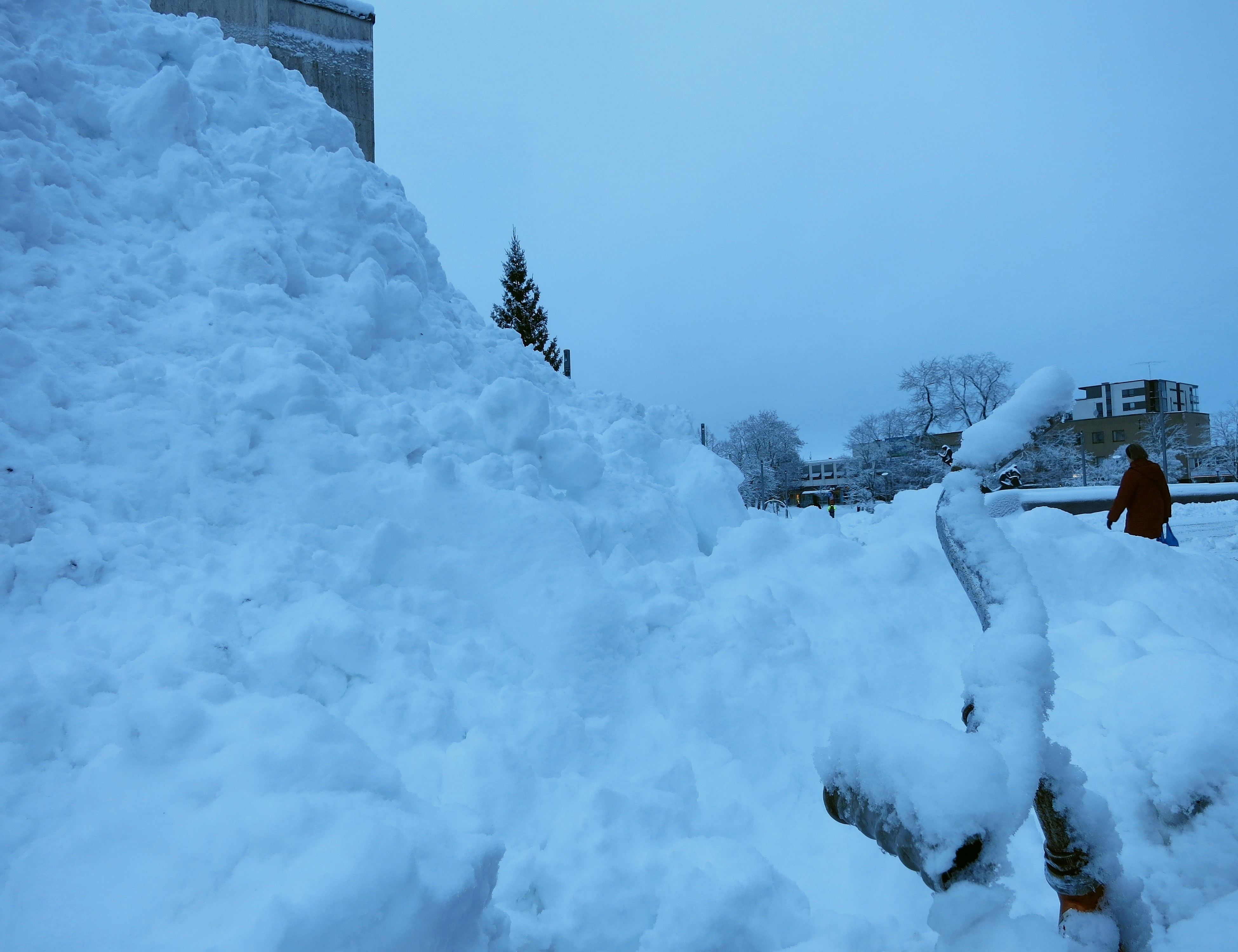 Morning in Nordic city